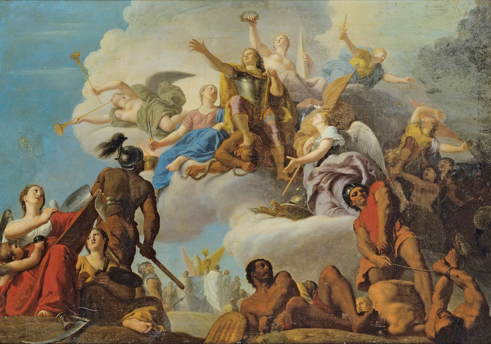 Study for the château de Chanteloup